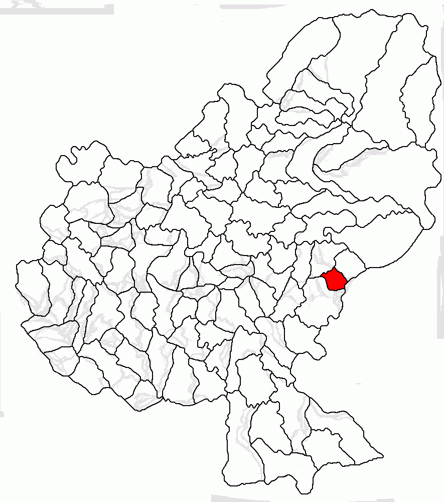 Locator map of the commune of Chibed, Mureș County, Romania